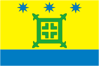 Novorozdestvenskoe (Krasnodar krai), flag